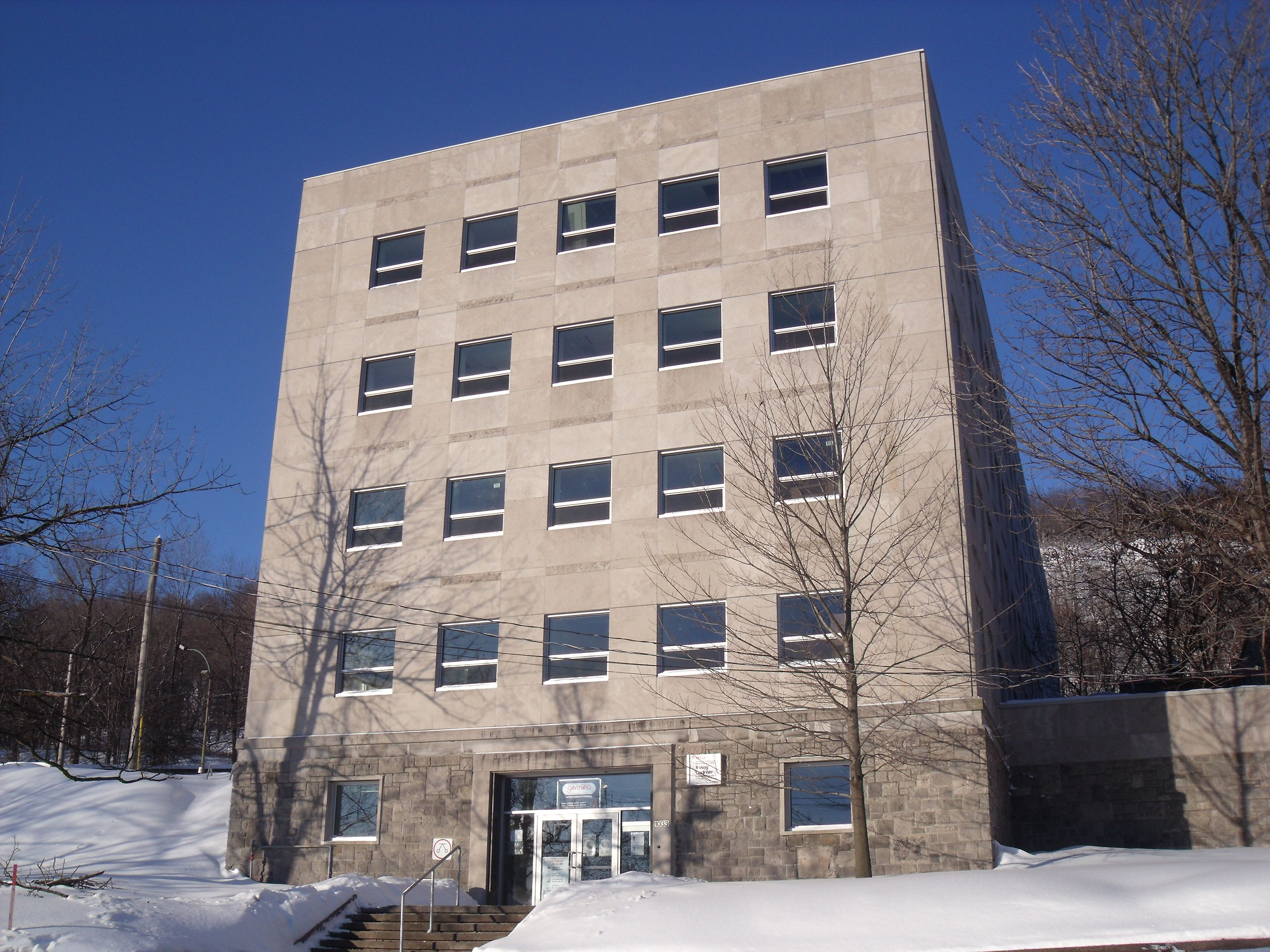 Irving Ludmer Psychiatry Research and Training Building, 1033 Pine Avenue West, Montreal, Quebec, Canada.